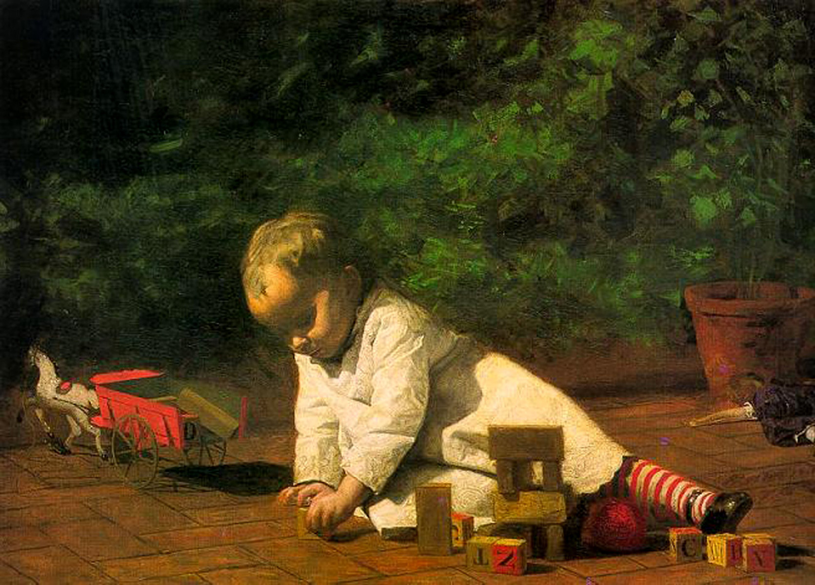 Painting by Thomas Eakins